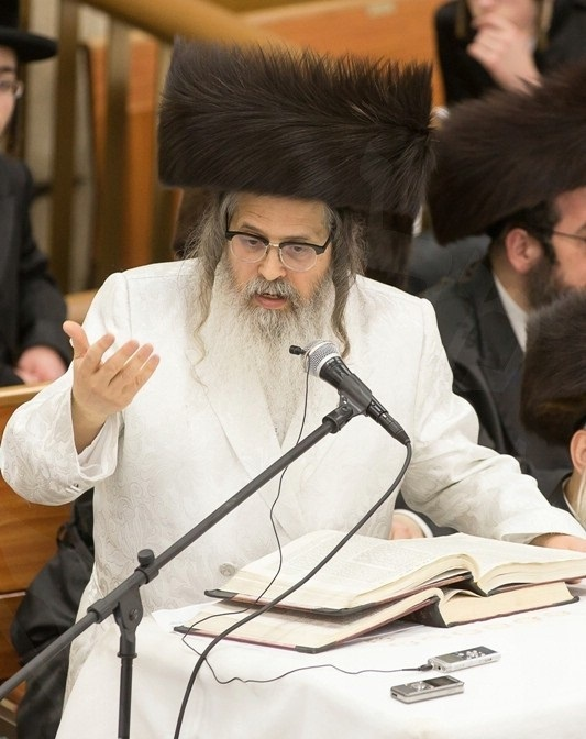 Rabbi Zalman Teitelbaum of Satmar-Williamsburg.